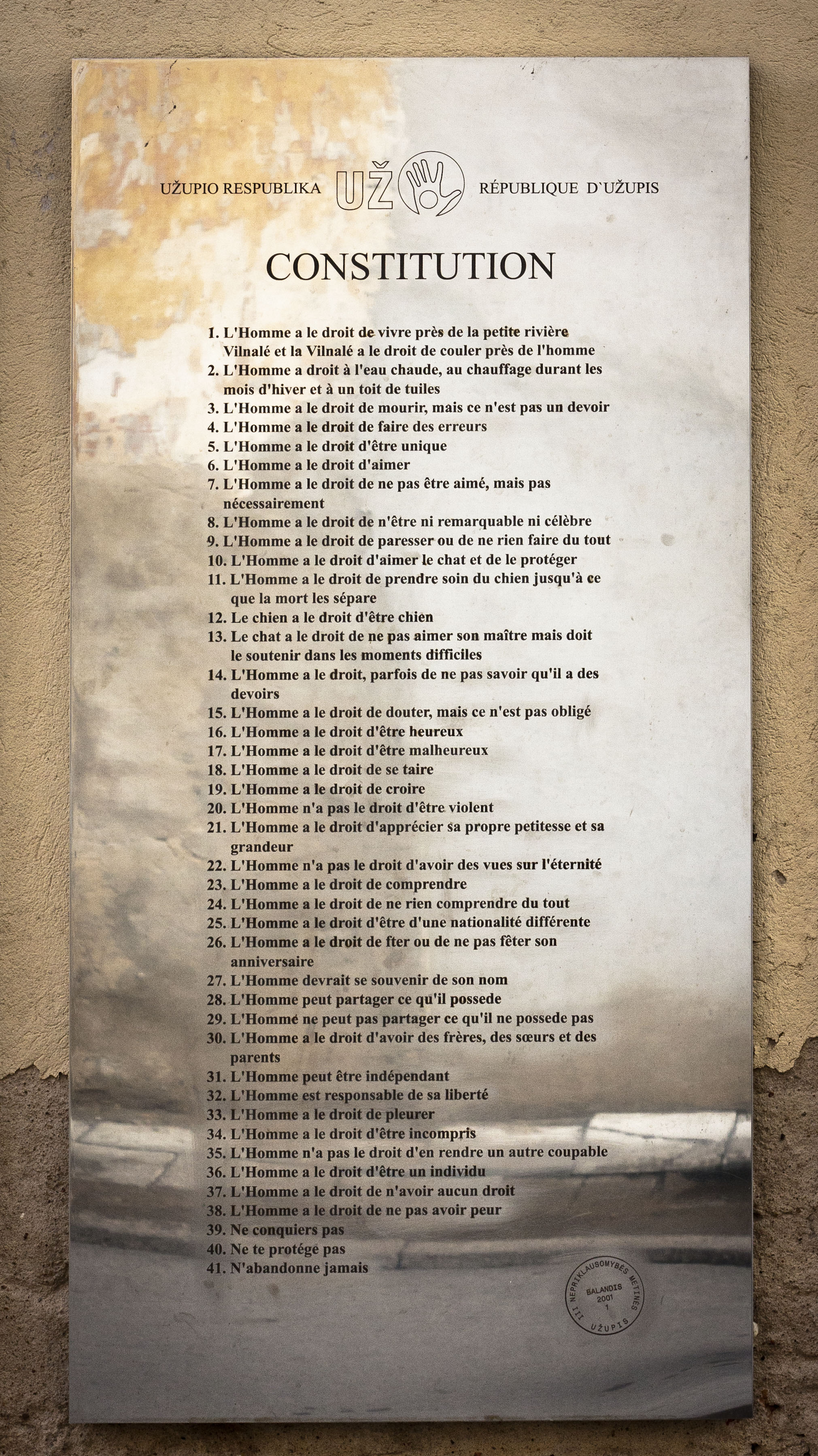 A plate with French text of Constitution of Užupis, artist's district in Vilnius, Lithuania.